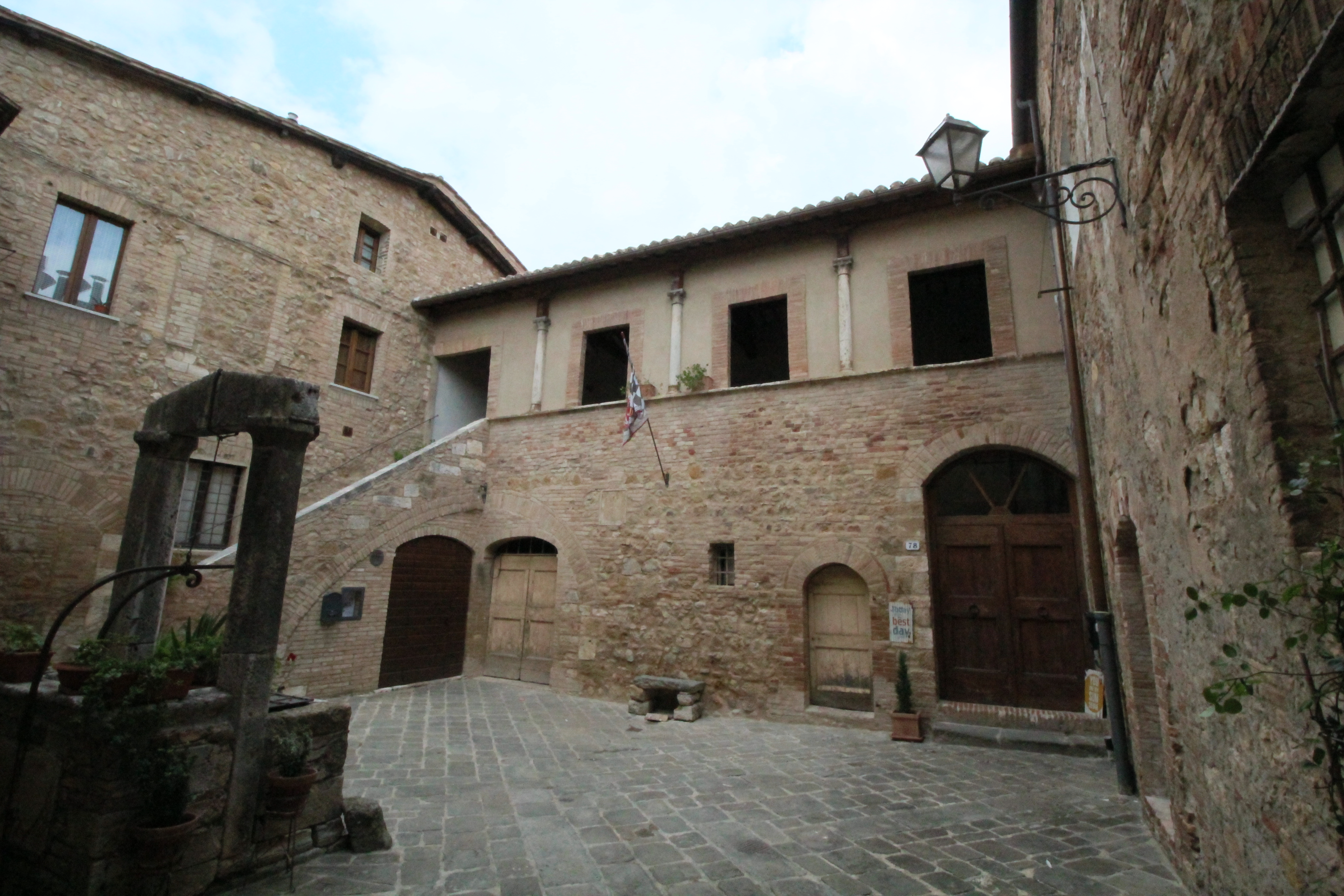 Ospedale della Scala, also Ospedale di Santa Maria della Scala di Siena, Ex-Hospital, built in the 13. Century, inside the walls of San Quirico d’Orcia, Province of Siena, Tuscany, Italy